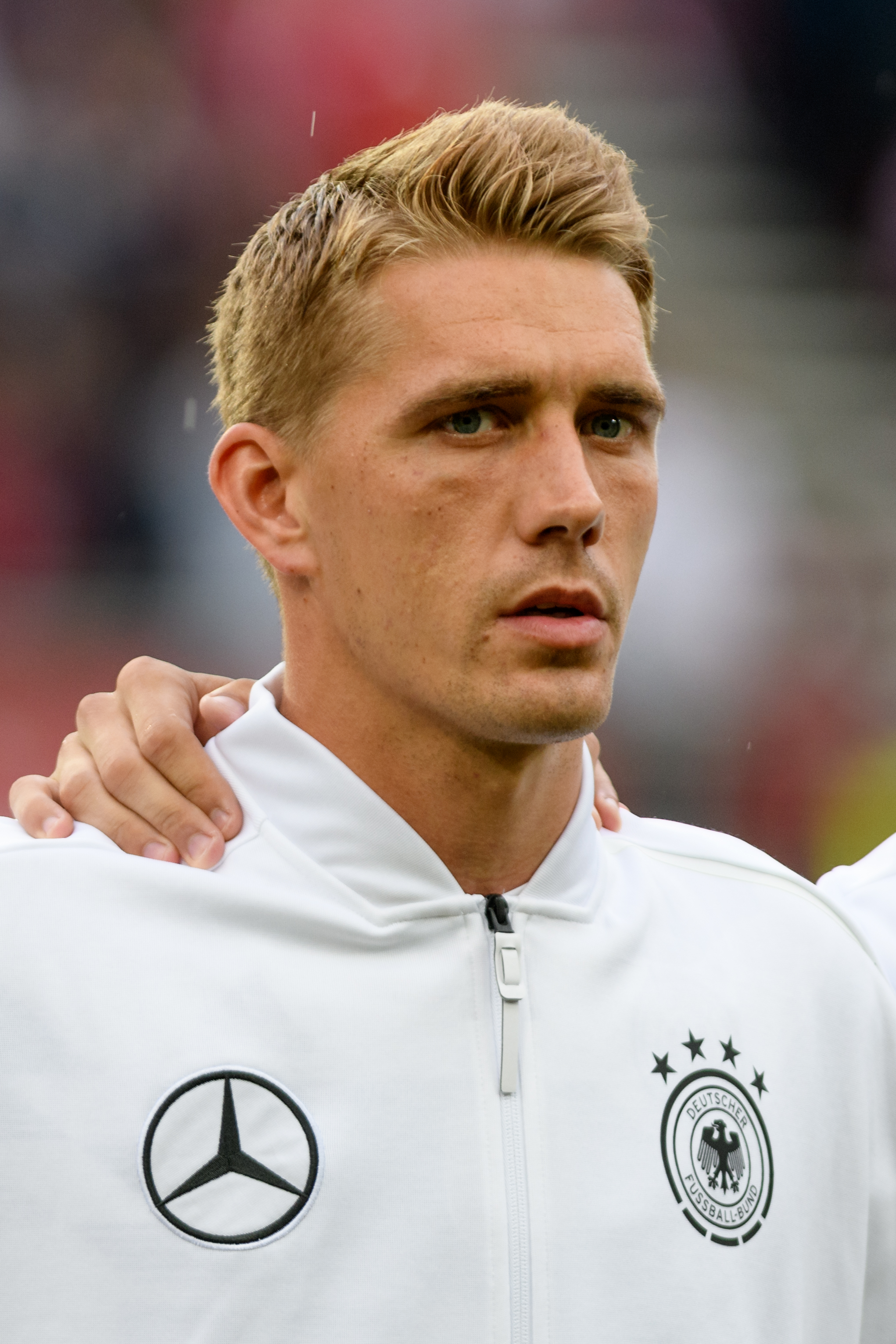 FIFA Friendly Match Austria vs. Germay 2018/06/02 in Klagenfurt/Woerthersee. Picture shows Nils Petersen (GER).